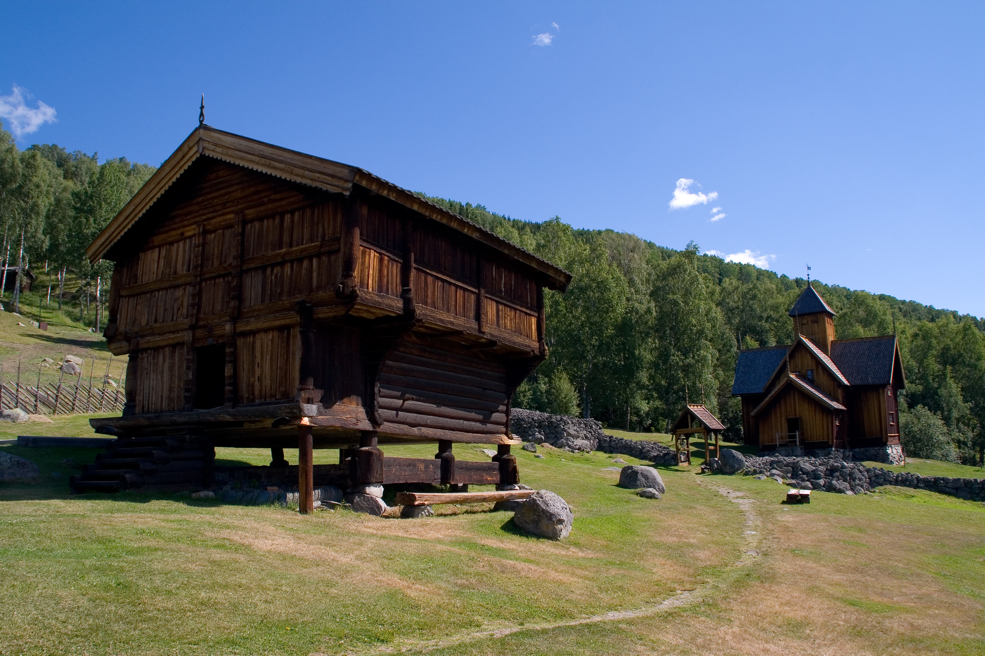 Uvdal stavechurch; Nore og Uvdal, Buskerud; Norway - with Nore and Uvdal museum (started in the 1980s). Old local buildings are being reerected on the site. The storehouse to the left belonged to the parish. The oldest parts of the building date back to 1627.